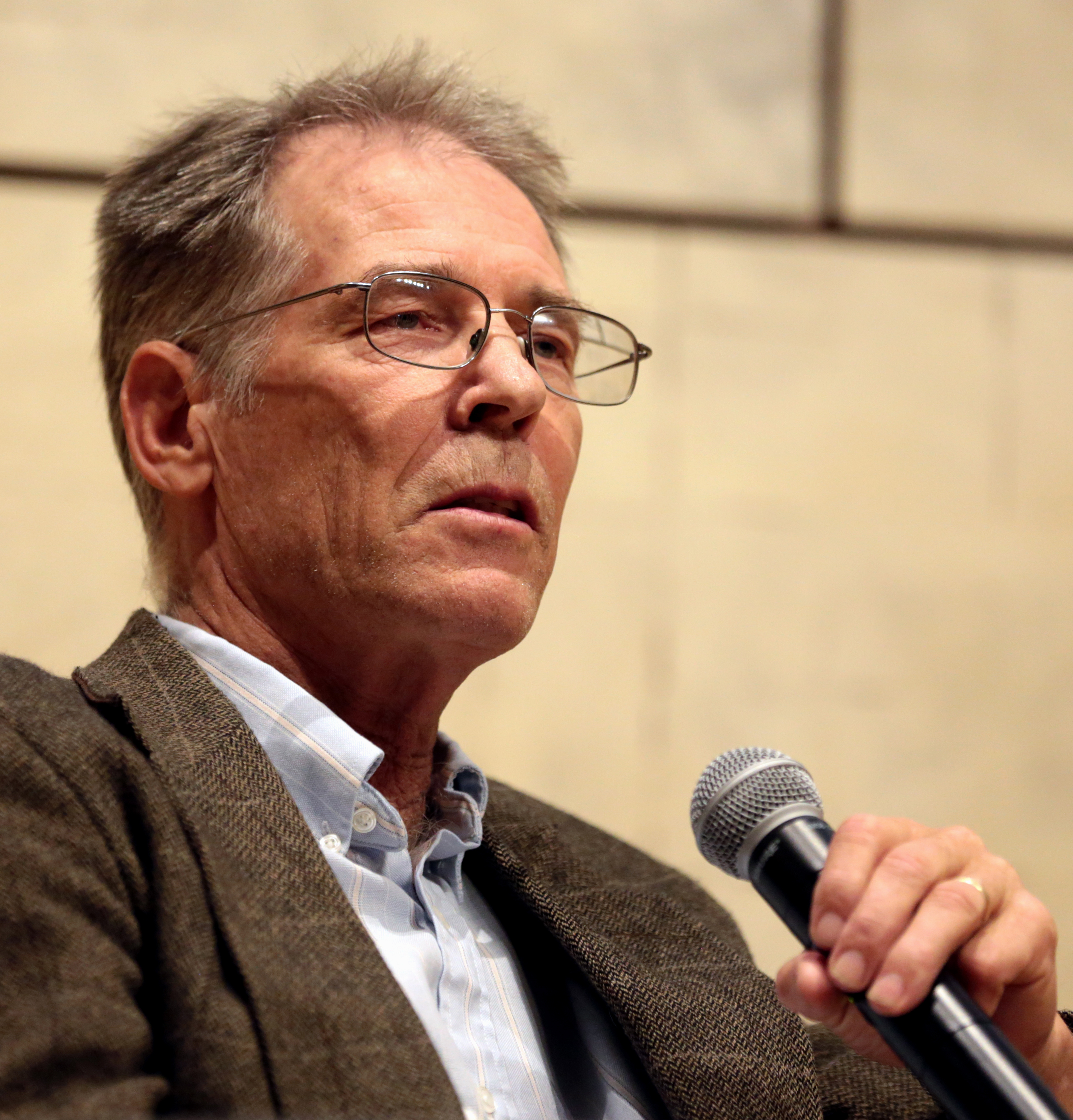 Kim Stanley Robinson speaking at an event in Phoenix, Arizona.